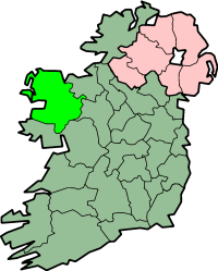 map of County Mayo, Ireland 08:06, 5 February 2004 Morwen 200x249 (30486 bytes) (map)